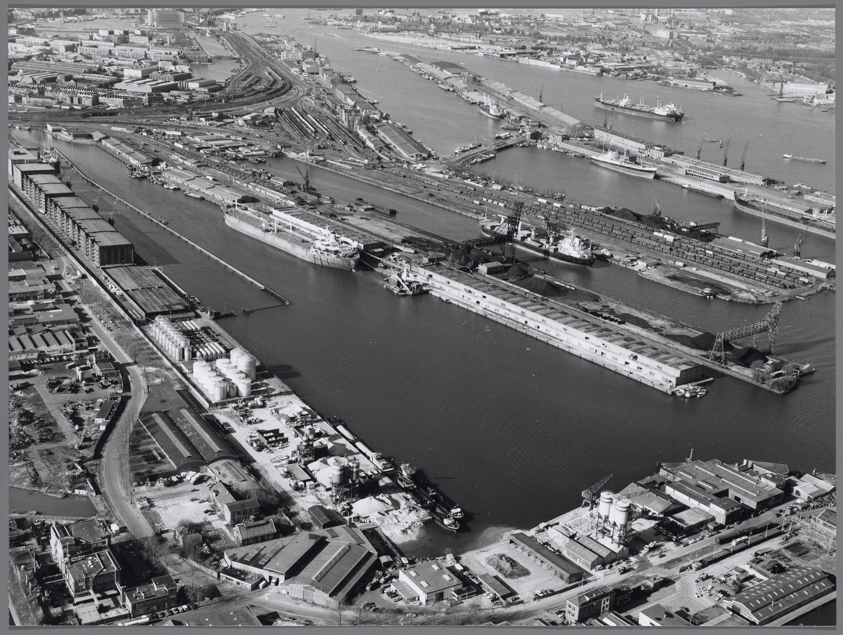 Aerial photo of Entrepothaven, Amsterdam, from southwest, c. 1978